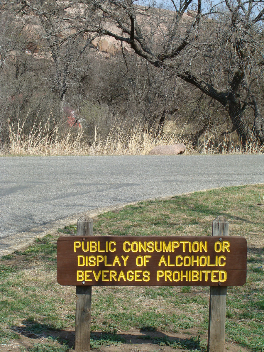 Enchanted Rock State Natural Area, Texas